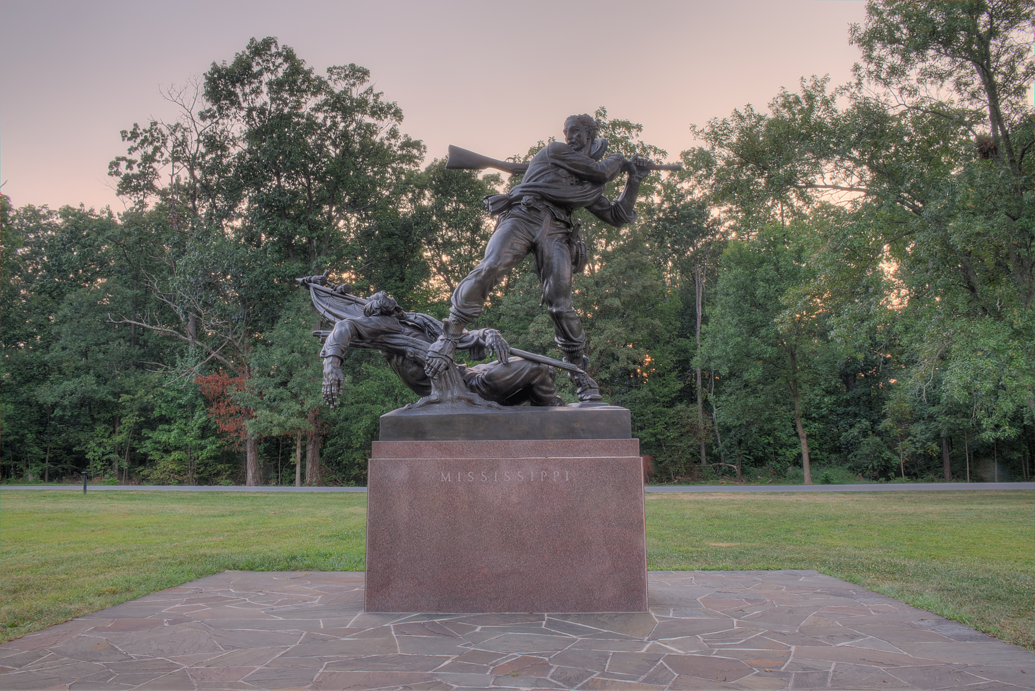 monument to William Barksdale's men at Gettysburg National Military Park